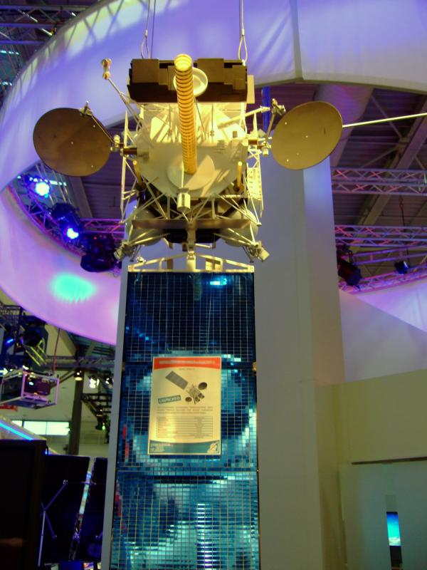 Model of Russian Meteorological satellite Electro-L at CeBIT 2011